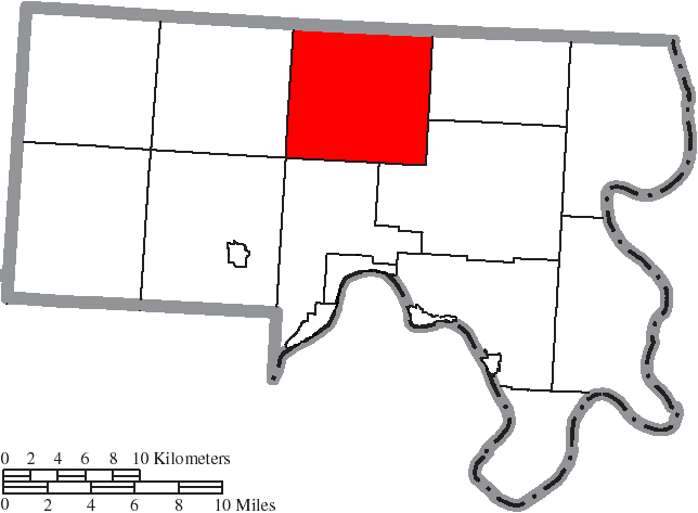 Map of the municipal and township boundaries of Meigs County, Ohio, United States, as of the 2000 census, with the location of Bedford Township highlighted. Township borders are shown only in unincorporated areas in order to differentiate incorporated and unincorporated areas more clearly.